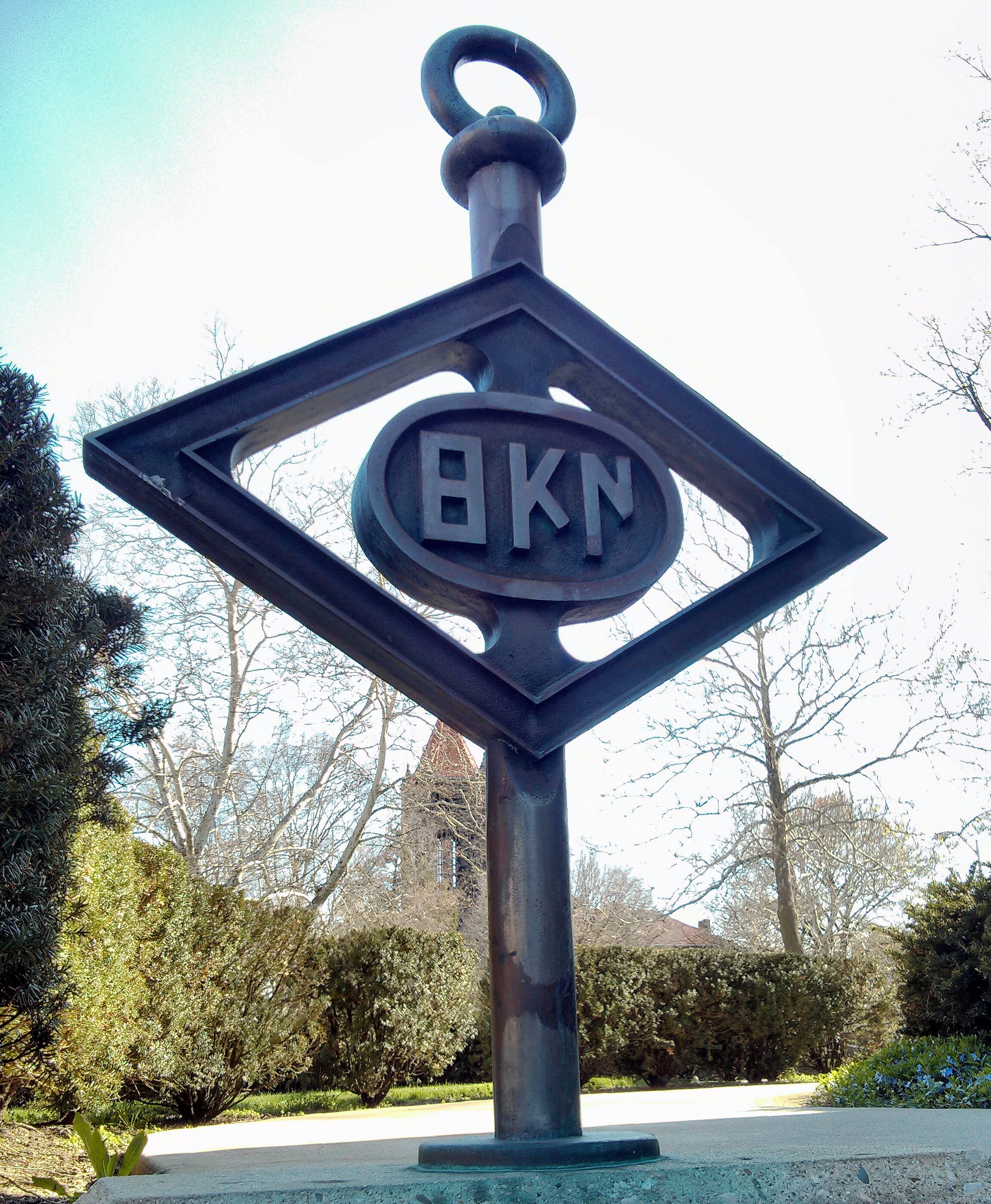 Eta Kappa Nu monument at the University of Illinois